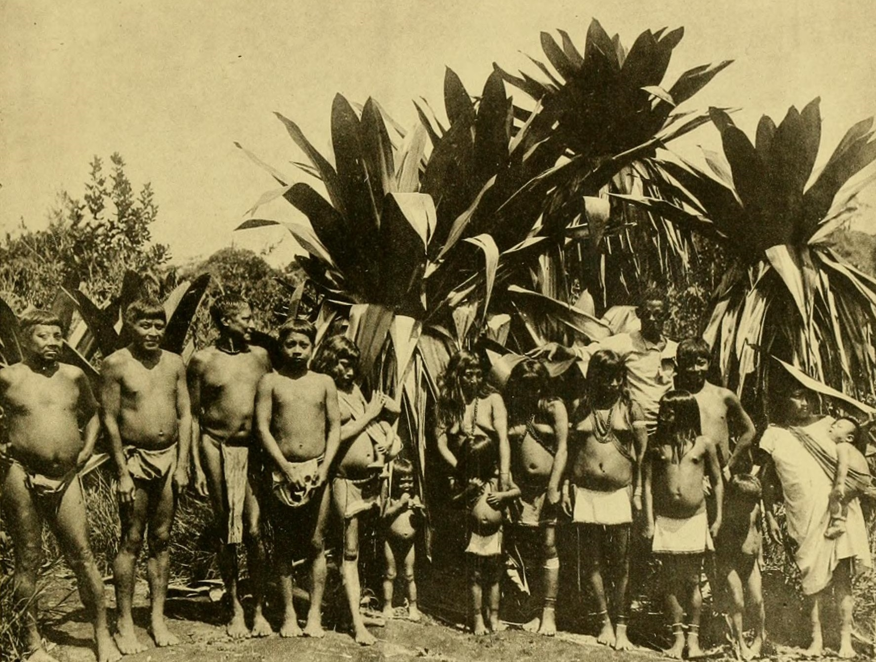 Patamona Indians on the Kaieteur Plateau